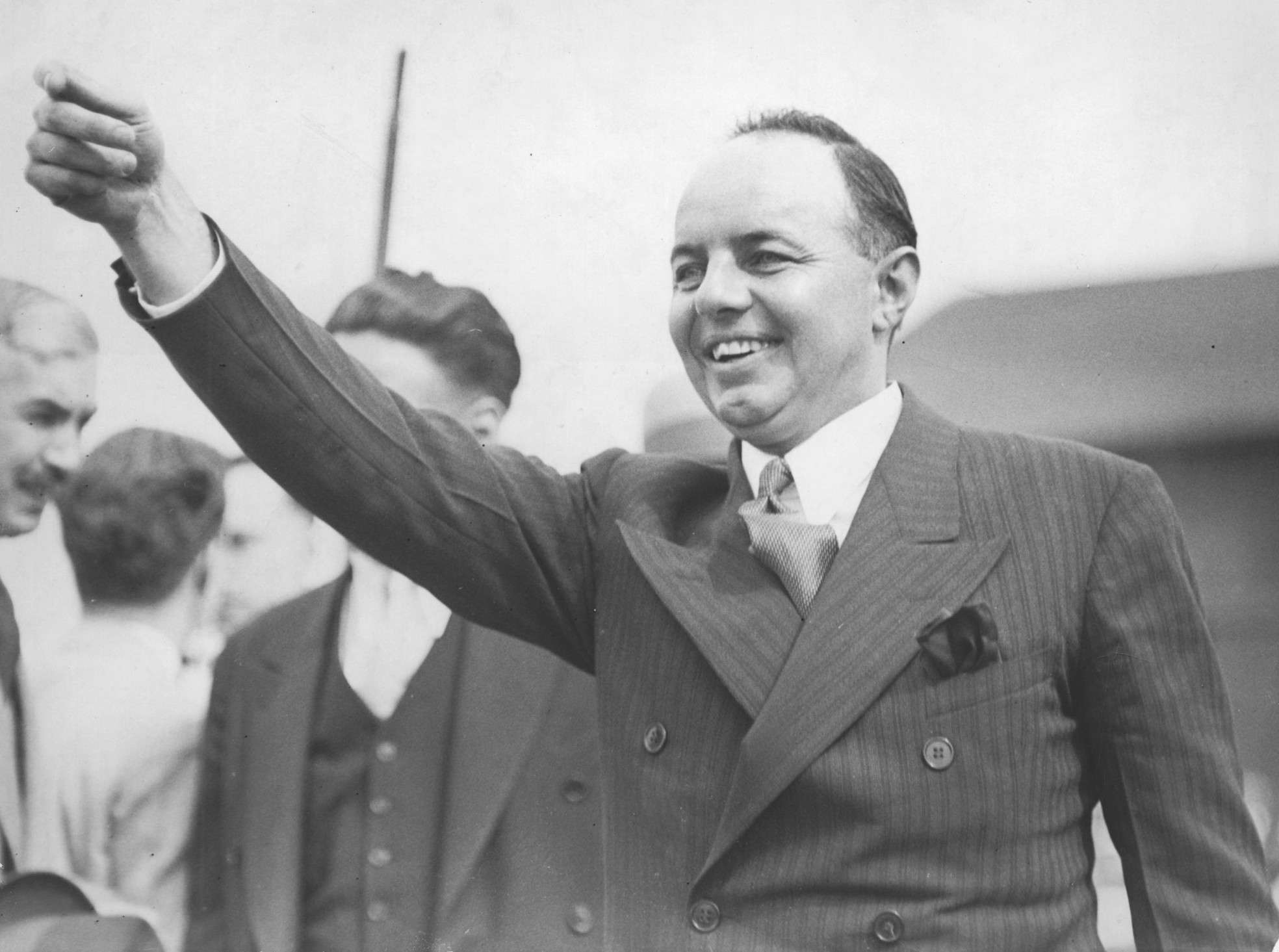 Mitch Hepburn Source: Archives of Ontario Date: [Between 1934 and 1942] Creator: Photographer unknown.